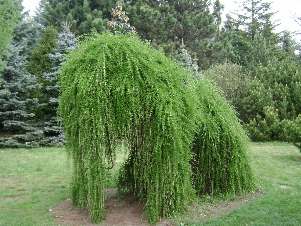 Poland. Warsaw. Powsin. Botanical Garden